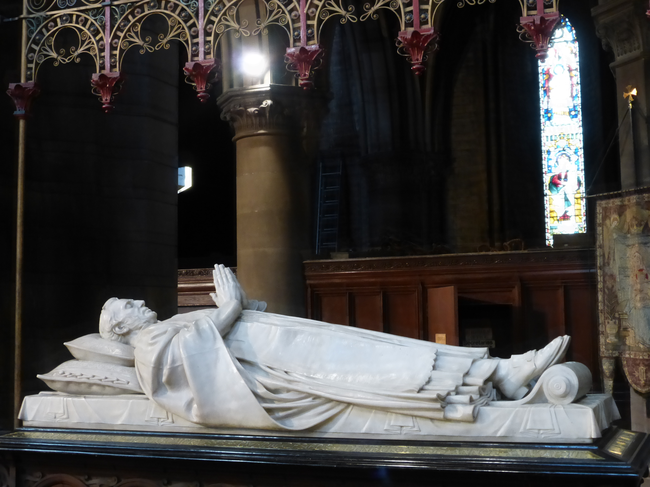 Marble effigy of James Francis Montgomery, first Dean of St. Mary's, by James Pittendrigh Macgillivray (1902).